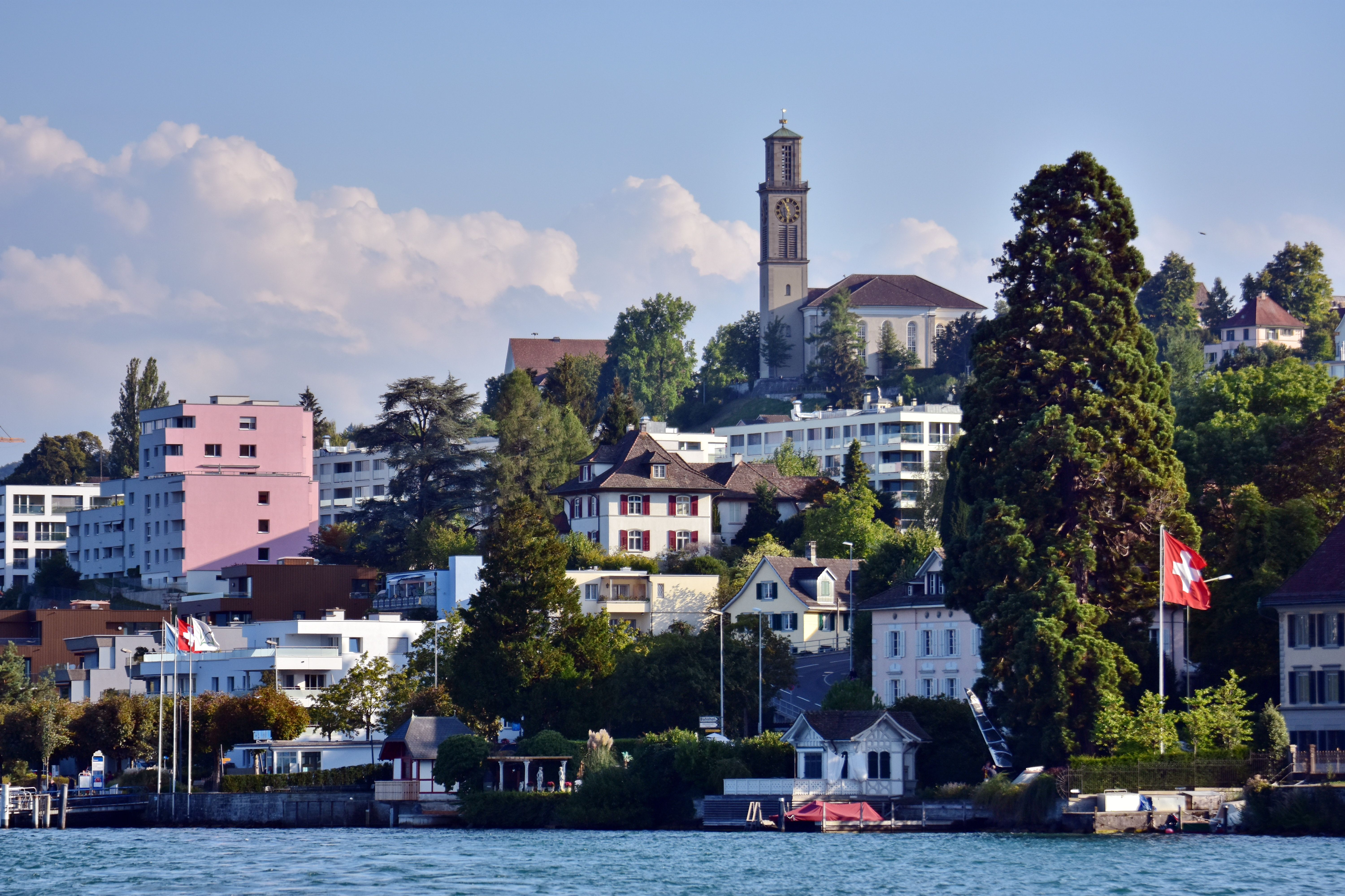 Thalwil on Zimmerberg, as seen from ZSG ship MS Helvetia on Zürichsee in Switzerland